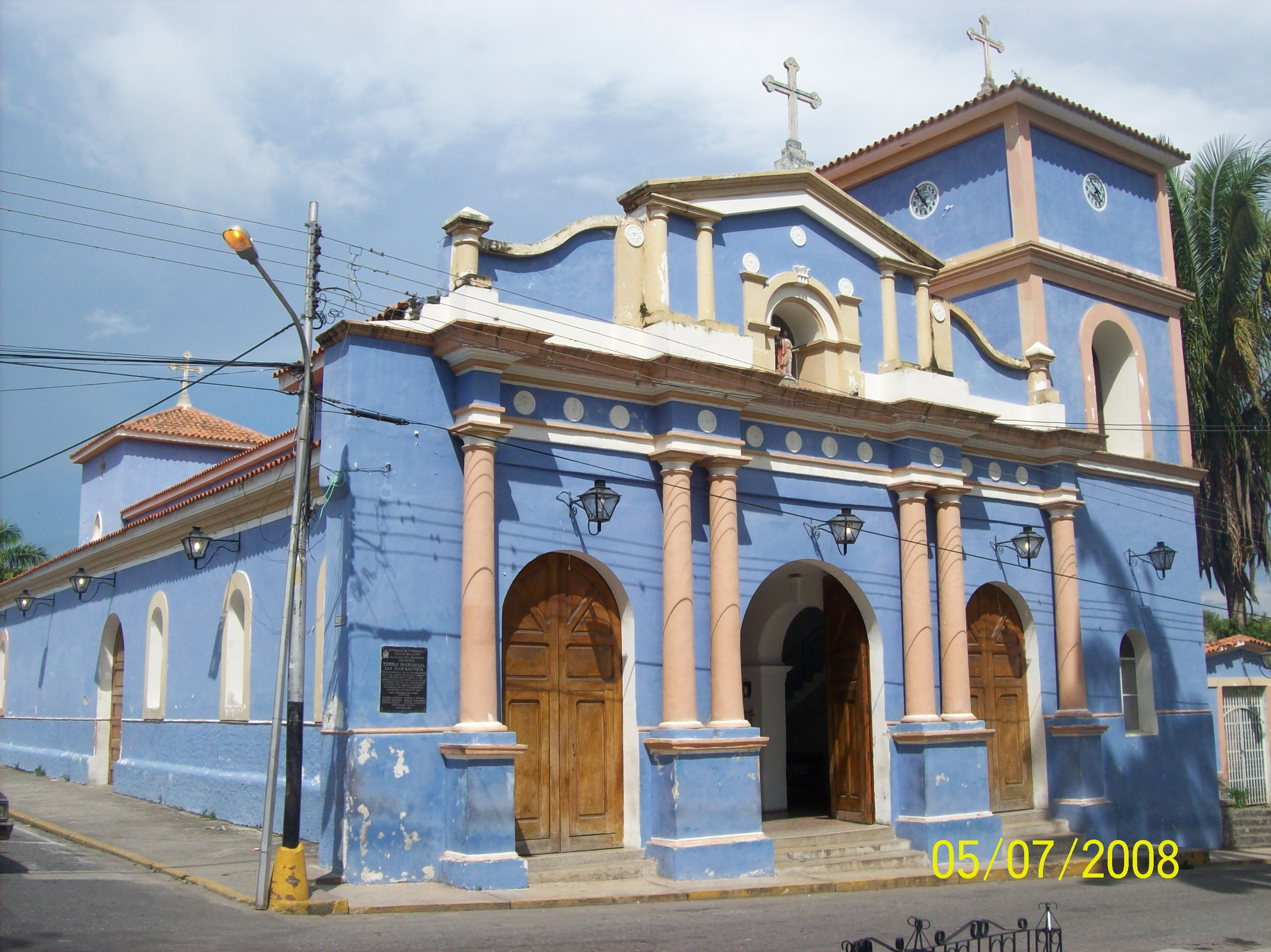 Church "St. John the Baptist" Urachiche, Yaracuy State, Venezuela